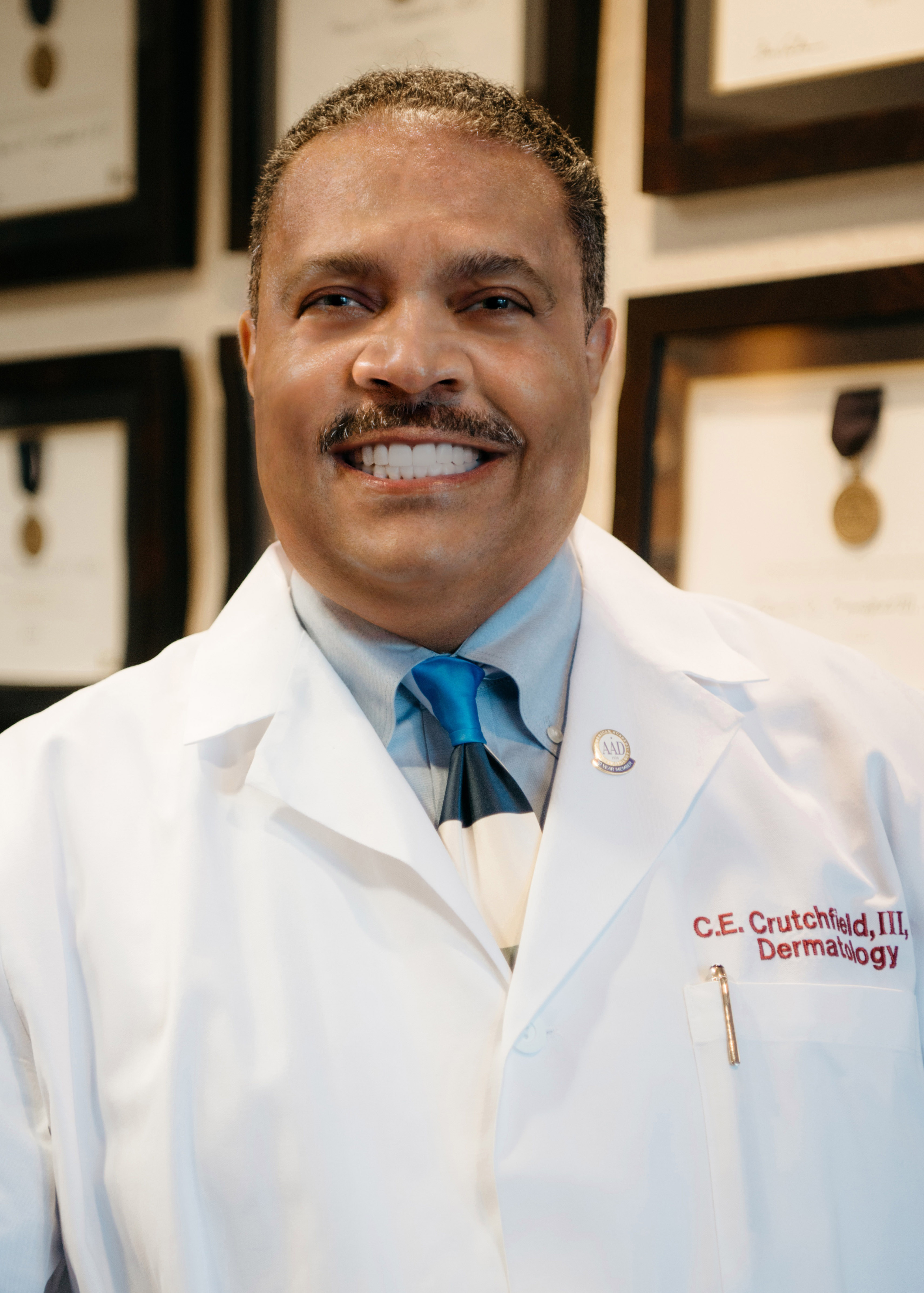 Headshot of Dr. Charles Crutchfield III